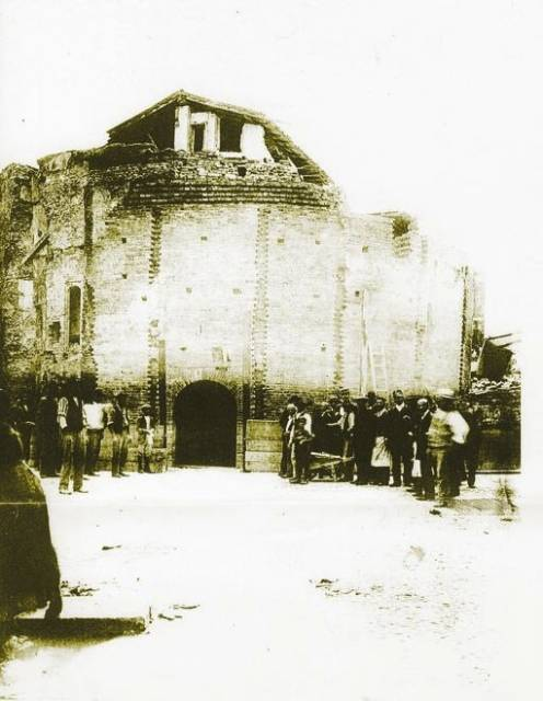 Mantova: Restauration of Rotonda di San Lorenzo after covering buildings have been removed.